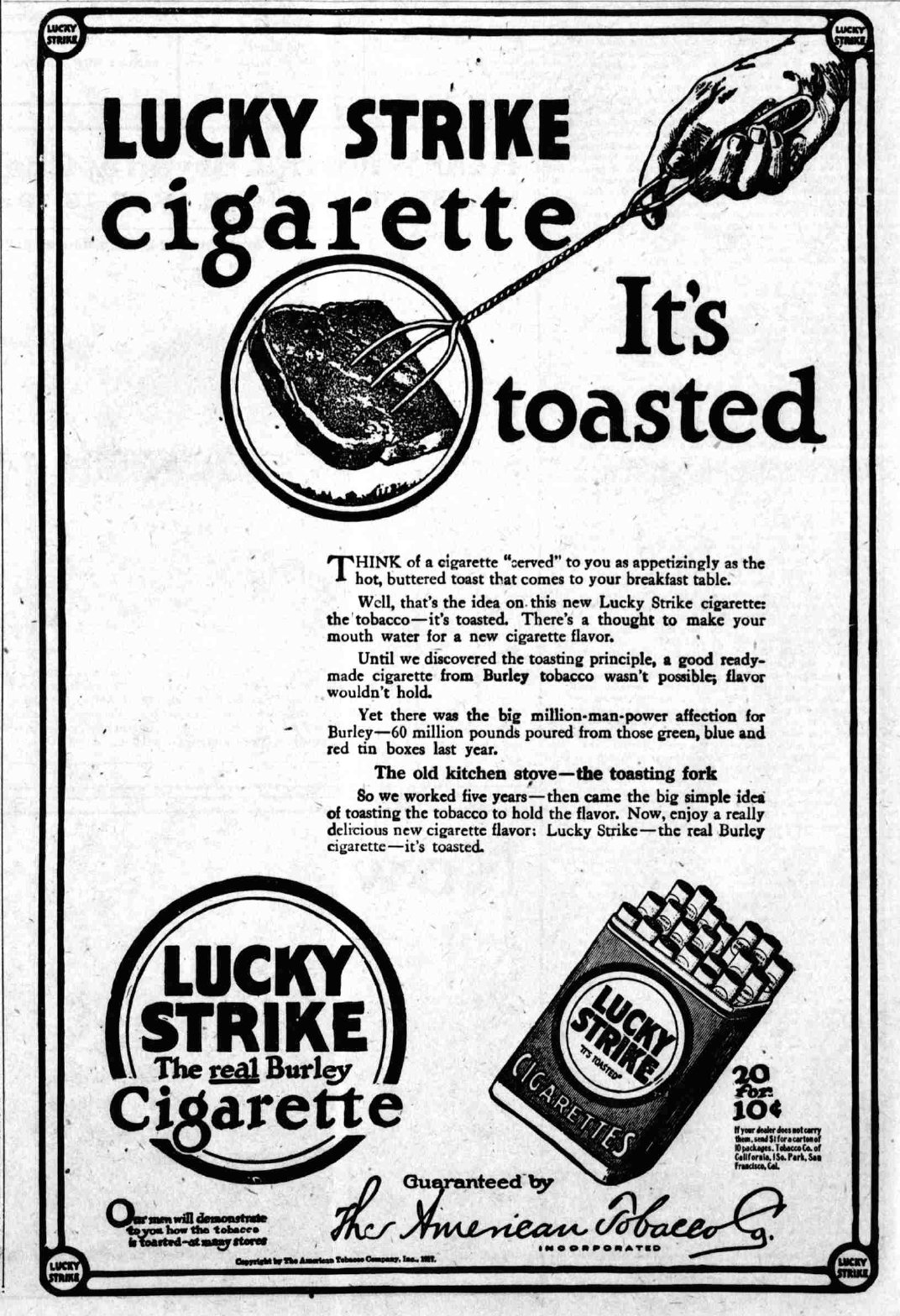 Newspaper ad for Lucky Strike cigarettes, promoting the toasted tobacco.